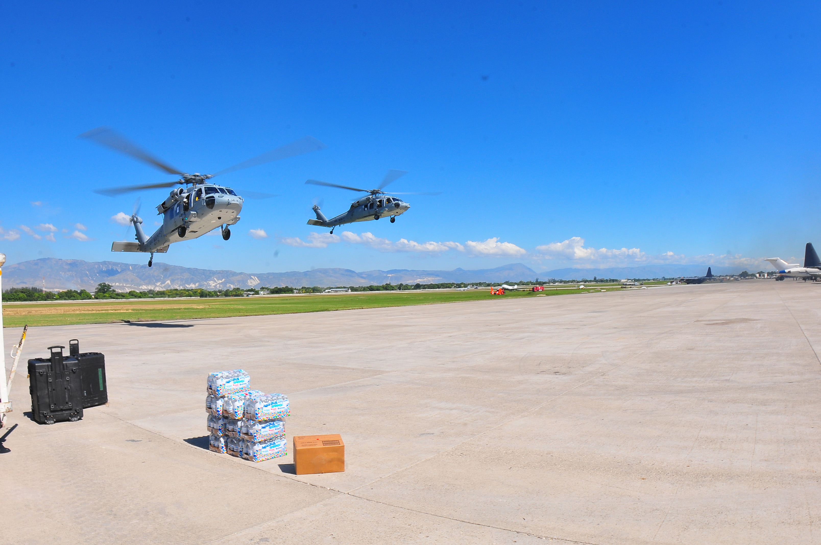 PORT-AU-PRINCE, Haiti (Jan 15, 2010) U.S. Navy SH-60 Sea Hawk helicopters from the aircraft carrier USS Carl Vinson (CVN 70) arrive at the airport in Port-au-Prince, Haiti. The U.S. military is conducting humanitarian and disaster relief operations after a 7.0 magnitude earthquake caused severe damage near Port-au-Prince on Jan 12, 2010. (U.S. Navy photo by Mass Communication Specialist 2nd Class Daniel Barker/Released)